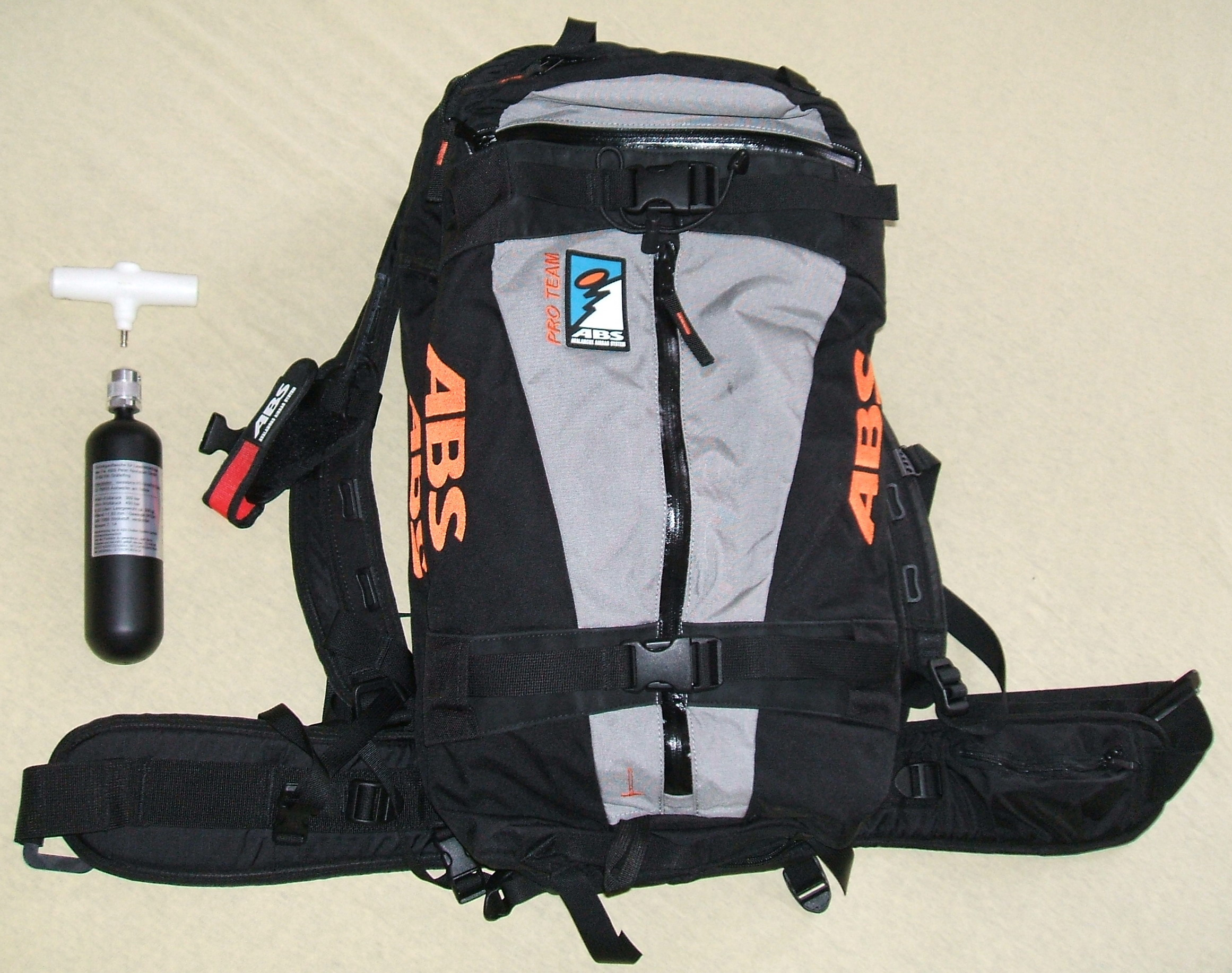 avalanche airbag system, cartridge and activation handle (left, top)